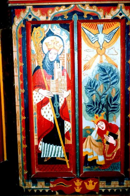 Church of England parish church of St Etheldreda, Horley, Oxfordshire: the Gothic revival pulpit of 1836 in the parish church was decorated in 1950 with scenes from the life of the patron saint. In the left-hand panel she holds a model of Ely cathedral, which she founded in AD 660; in the right she is shown resting on her flight from Egfrith of Northumbria, beneath the tree which miraculously sprouted from her staff to shelter her.